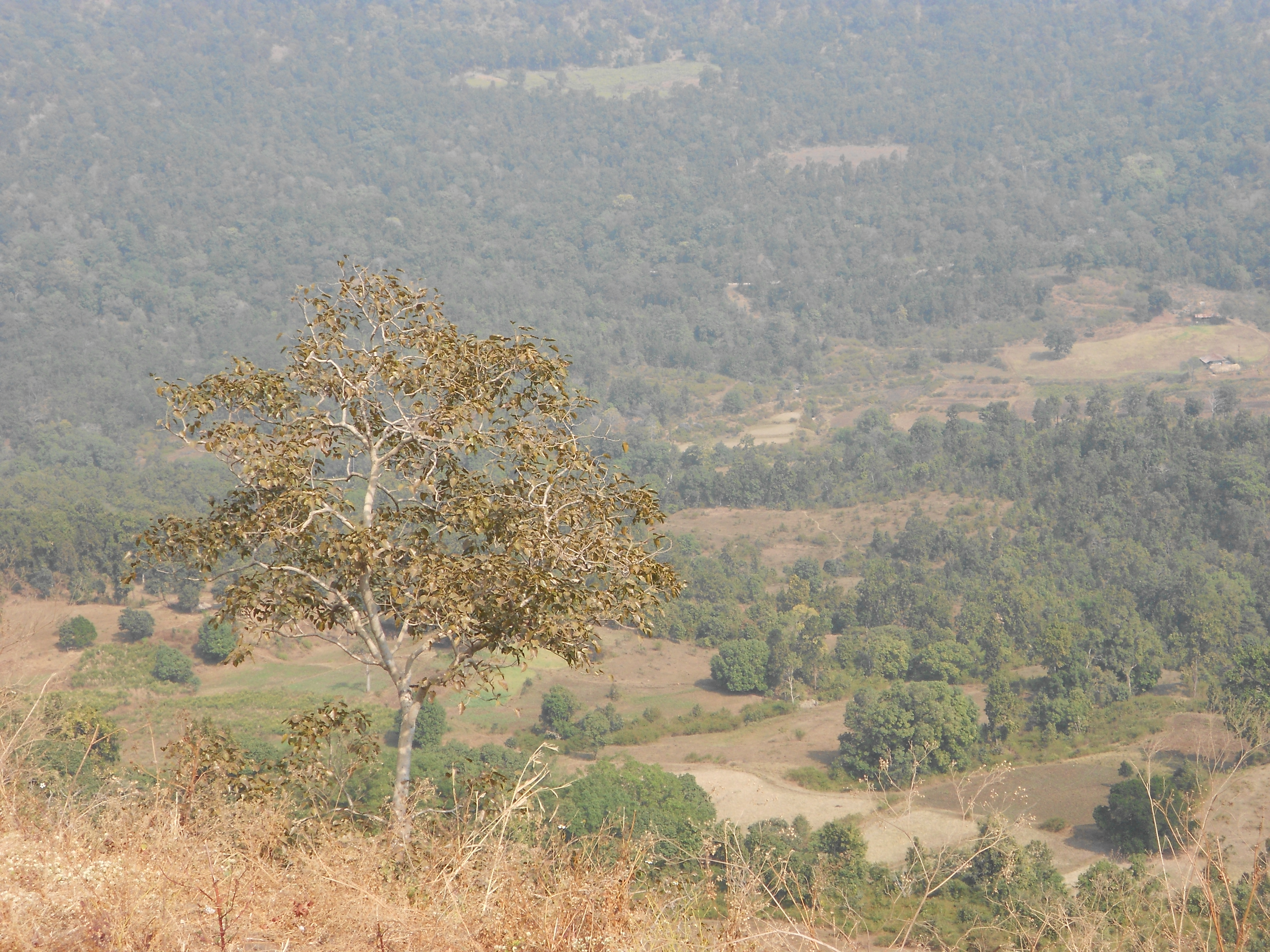 An aerial view of the village from a cliff.